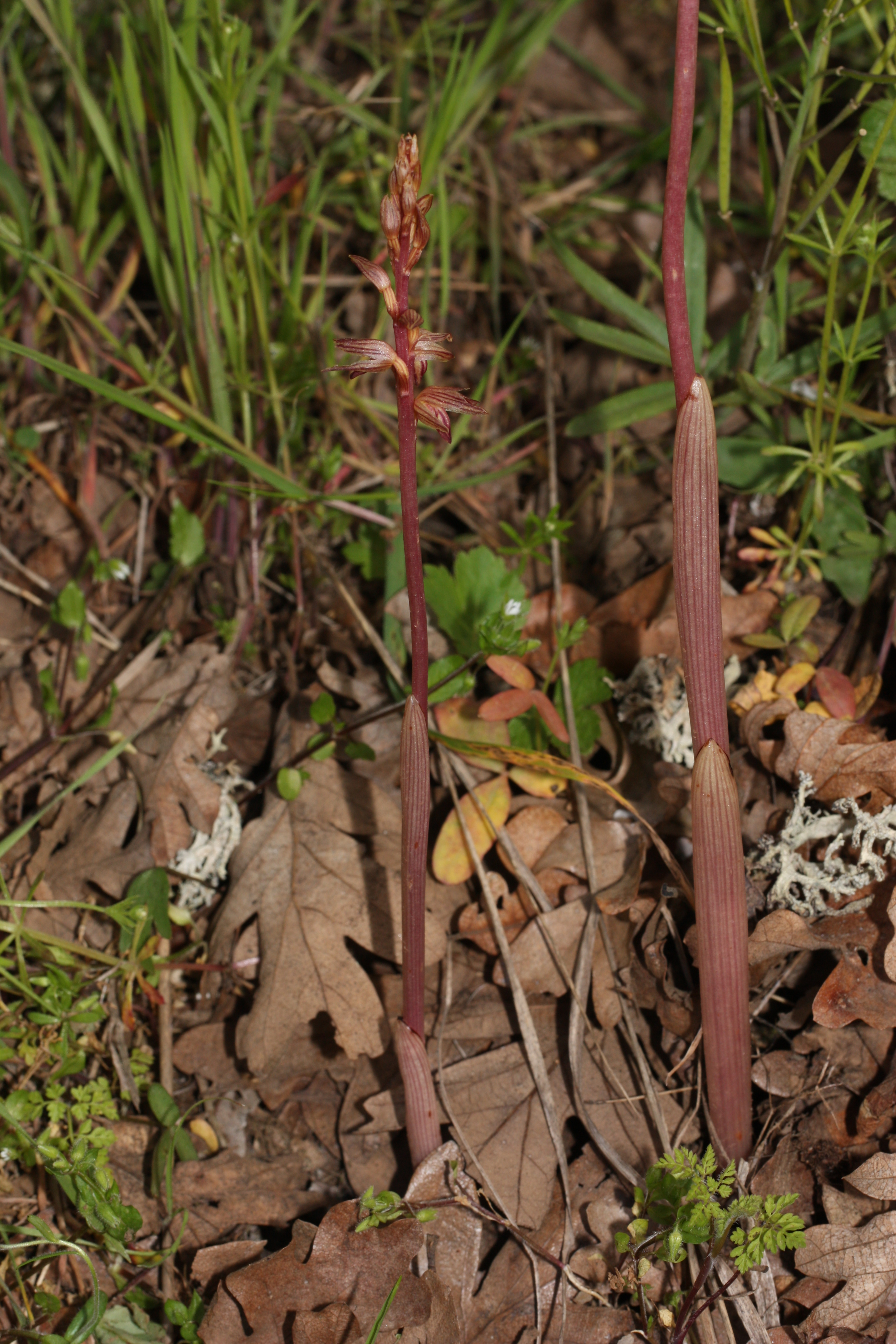 Striped Coralroot, Hooded Coralroot Identification by: Hitchcock and Cronquist, p. 700 Viewpoint location: McCall Point Trail, Tom McCall Preserve Viewpoint elevation: 384 meter (1260 ft) Location source: Garmin GPSmap 60CSx Location Datum: WGS84